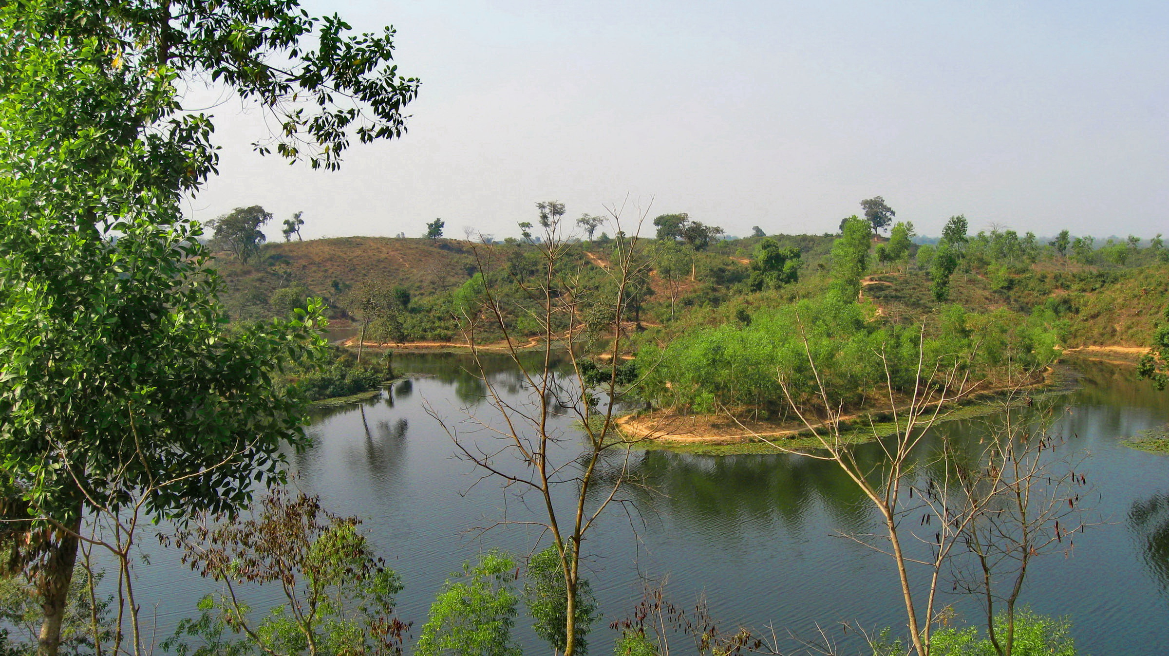 Madhabpur lake seen from a surrounding hill.